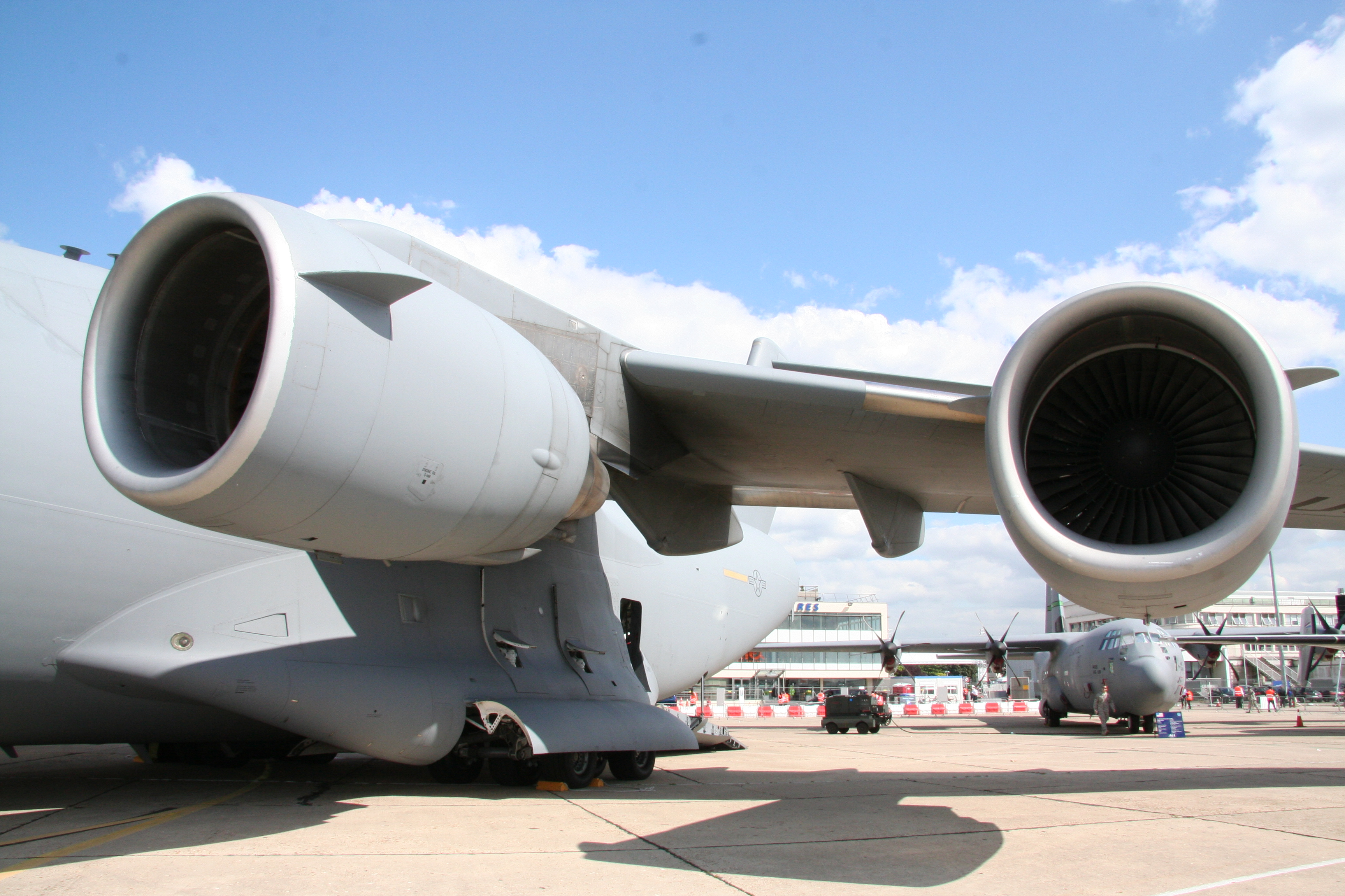 Boeing C-17 Globemaster III - Paris Air Show 2009